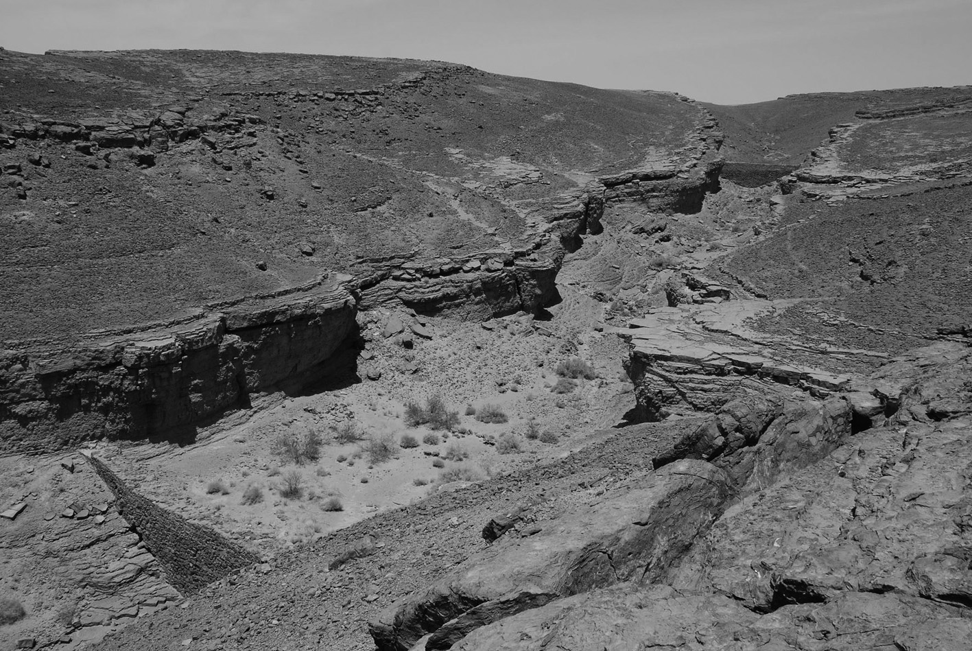 Western ravine with two dams, in Jebel Muddawwar/Gara Medouar, Morocco; photo by Chloe Capel